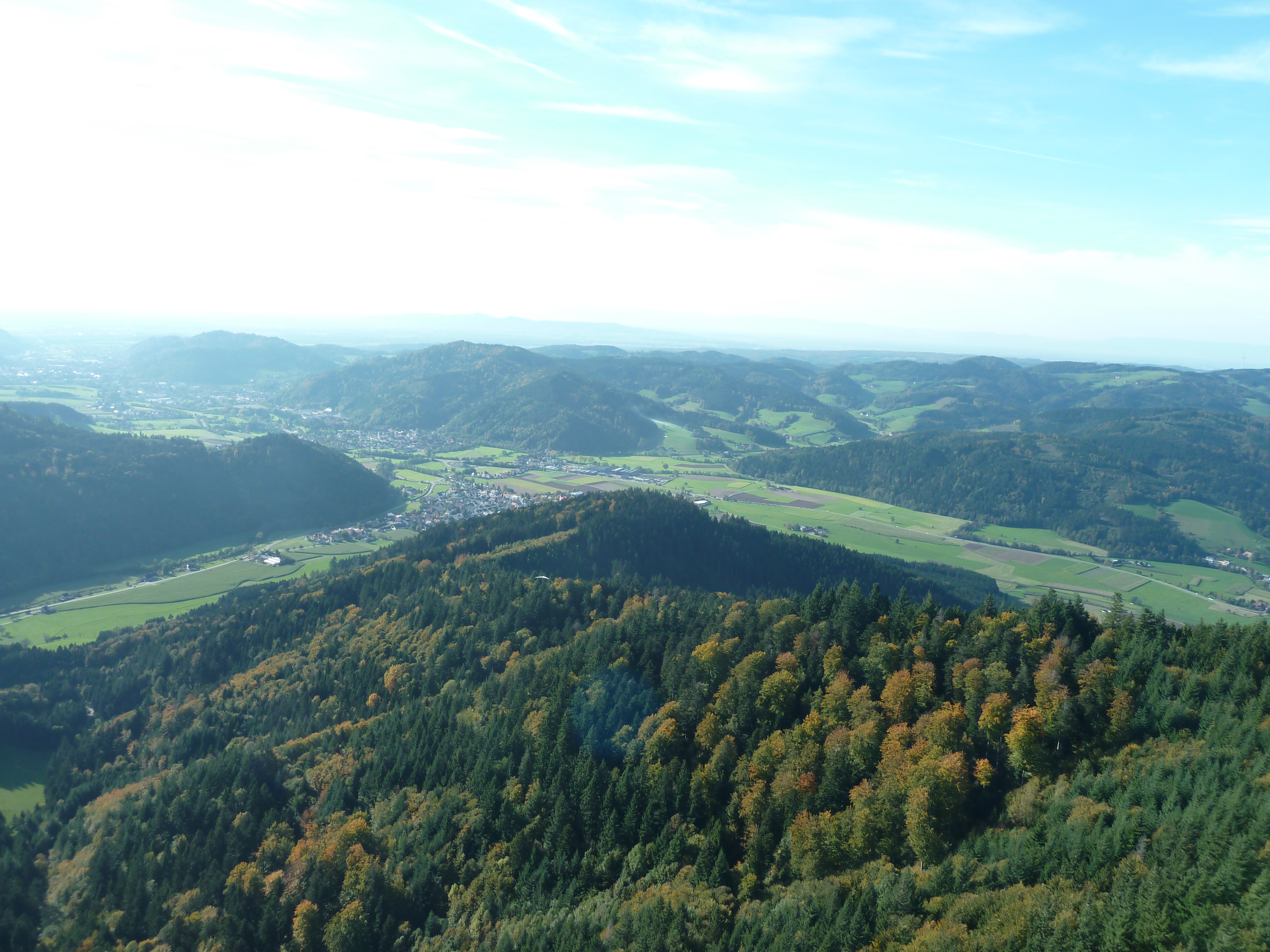 on the left han side Simonswäldertal (Valley) on the right hand side Elztal (Valley)